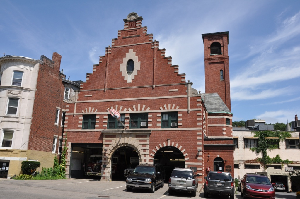 A photograph of the historic Fire Station No. 7 in Brookline, Massachusetts.